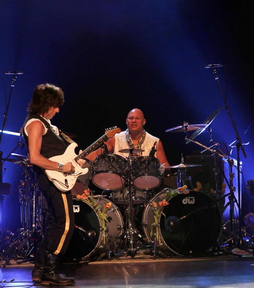 Jeff Beck and Narada Michael Walden in May 2011